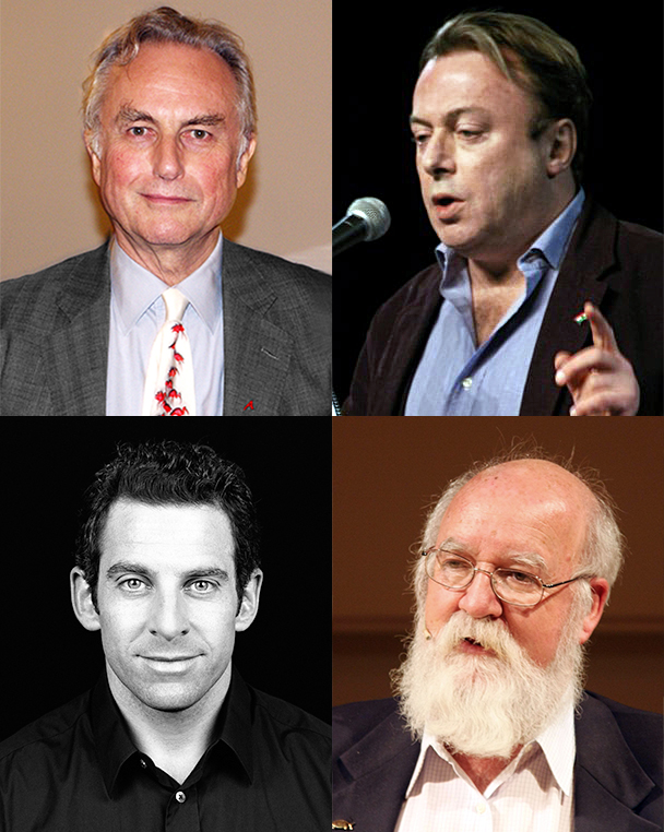 "The Four Horsemen of the Non-Apocalypse": Richard Dawkins, Christopher Hitchens, Daniel Dennett, Sam Harris.